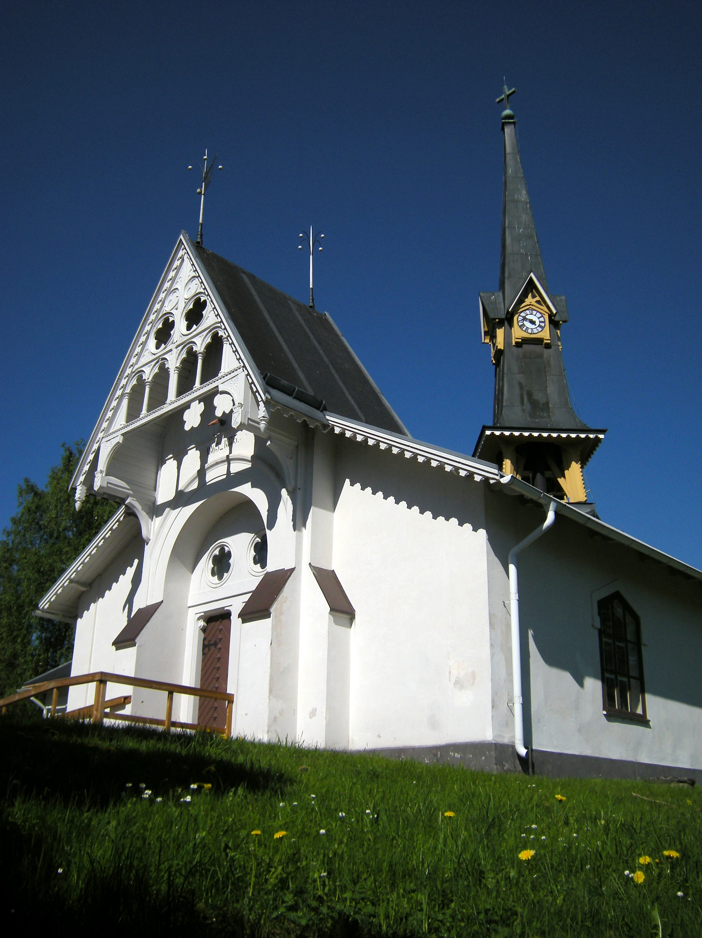 Chapel in Hammarby, Gästrikland